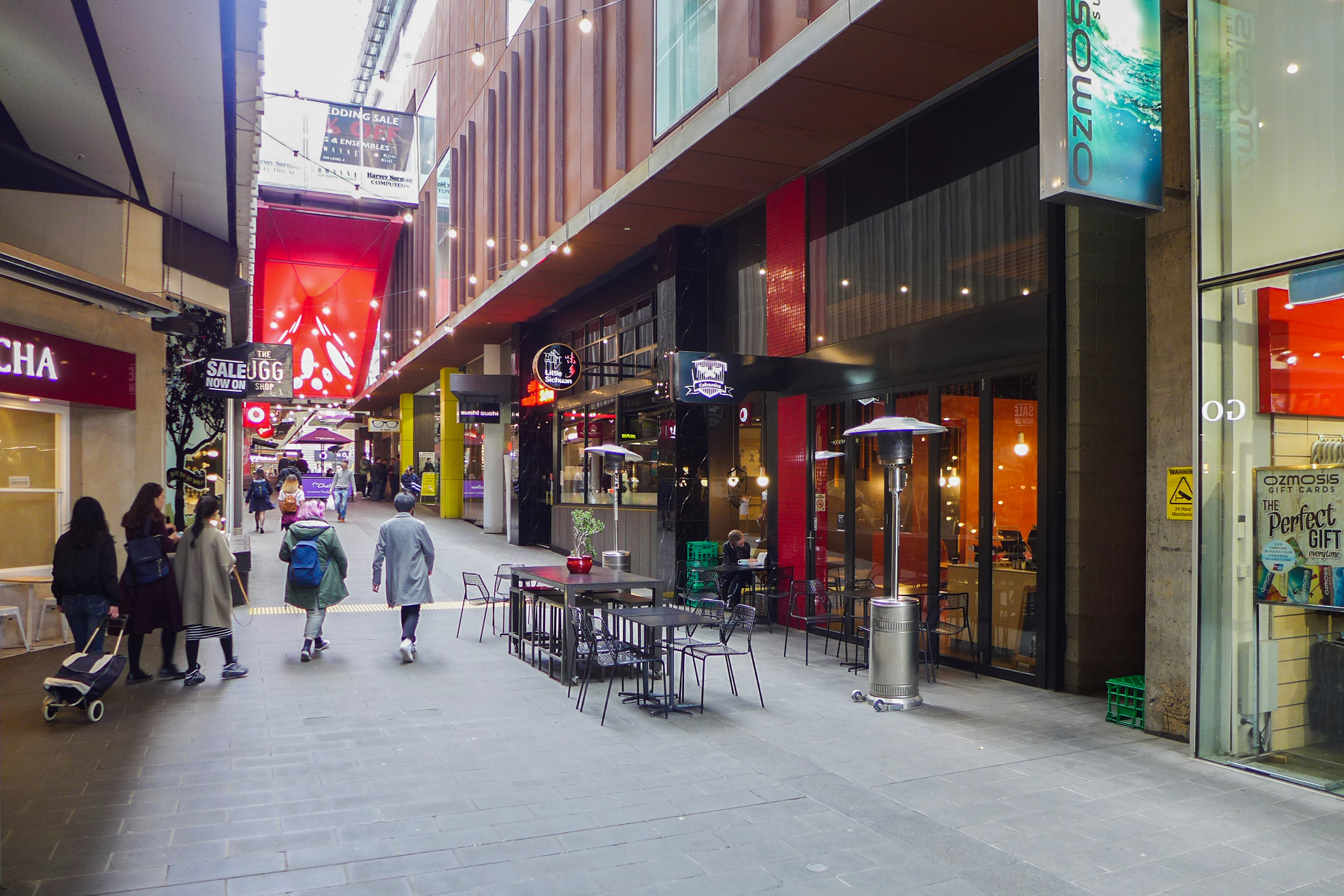 Queen Victoria Village Red Cape Lane shops